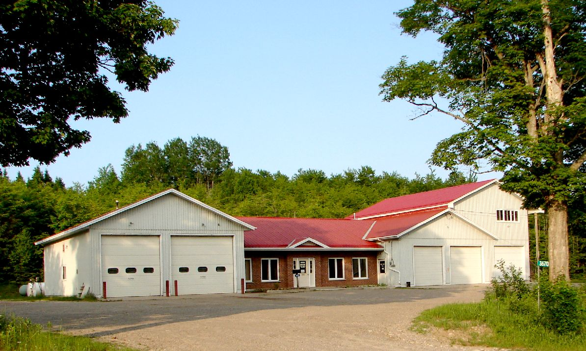 Municipal offices of Jocelyn Township, Ontario, Canada